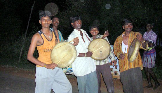 flat drummers('parai') ot Tamilnadu, one of the state in India. It is a simple and having many sensible rhytham and also one of the ancient instrument.